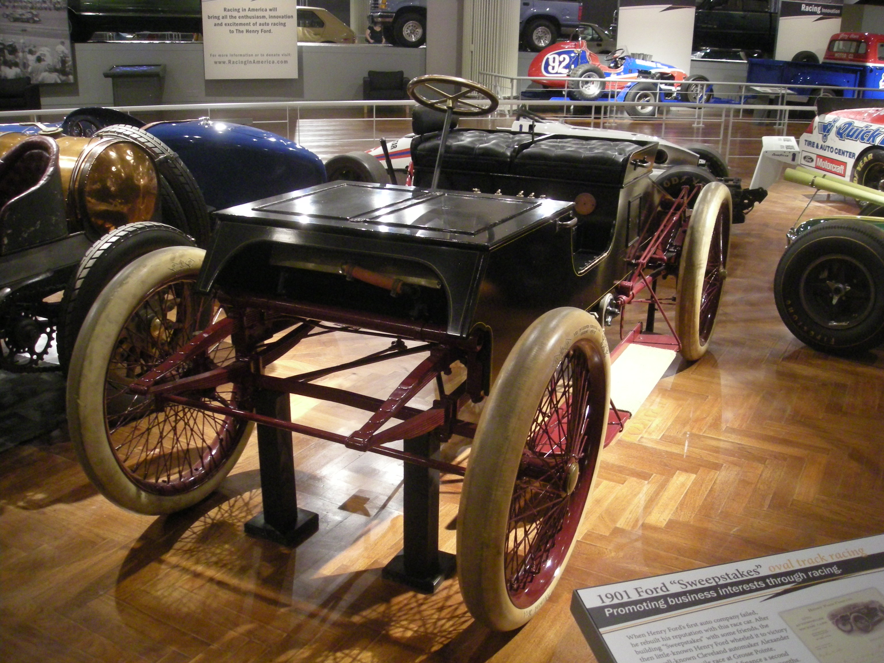 A 1901 Ford "Sweepstakes" on display at the Henry Ford Museum in Dearborn, Michigan (United States).